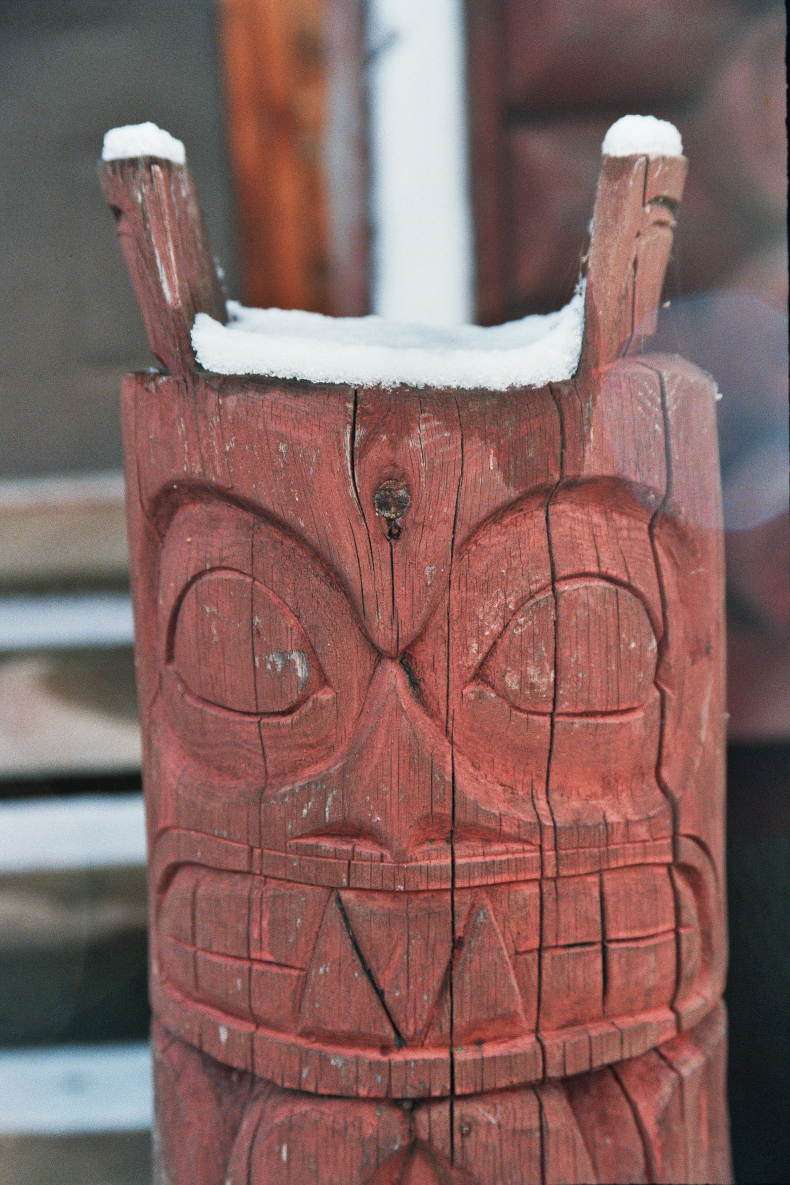 Small totem outside Saik'uz First Nation Potlatch House